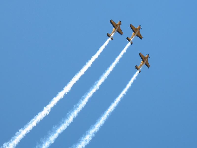 Aerobatic Display by Royal New Zealand Air Force PAC CT/4 aircraft at the 2008 Tauranga City Airshow